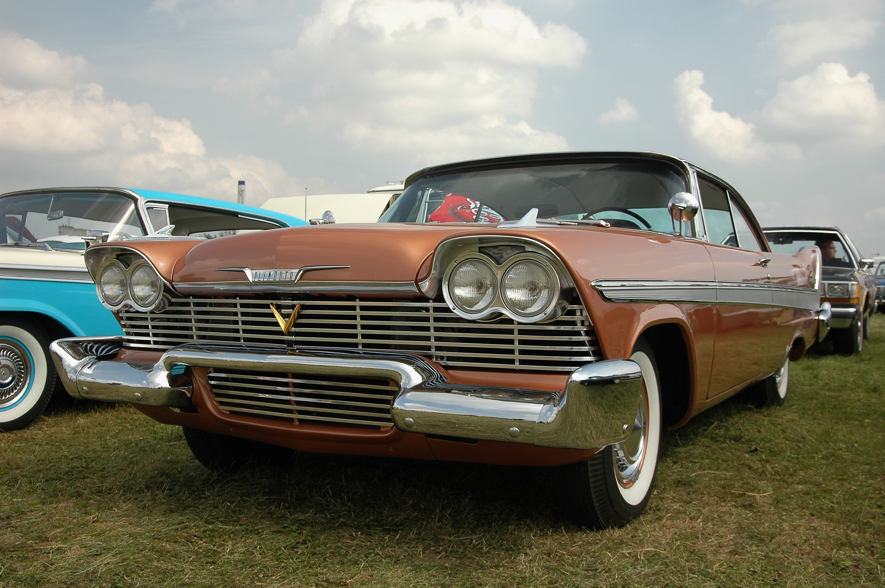 USA vehicle